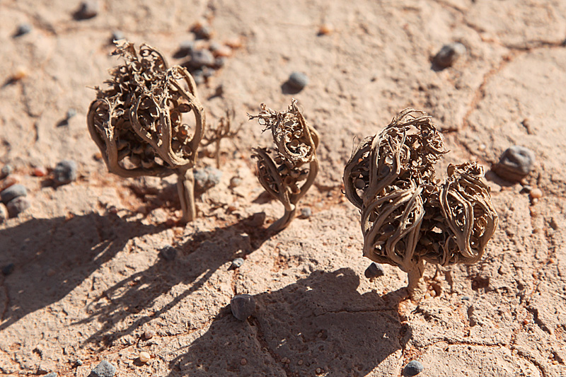 Roses of Jericho areal, Gilf Kebir Plateau, Western Desert, Egypt